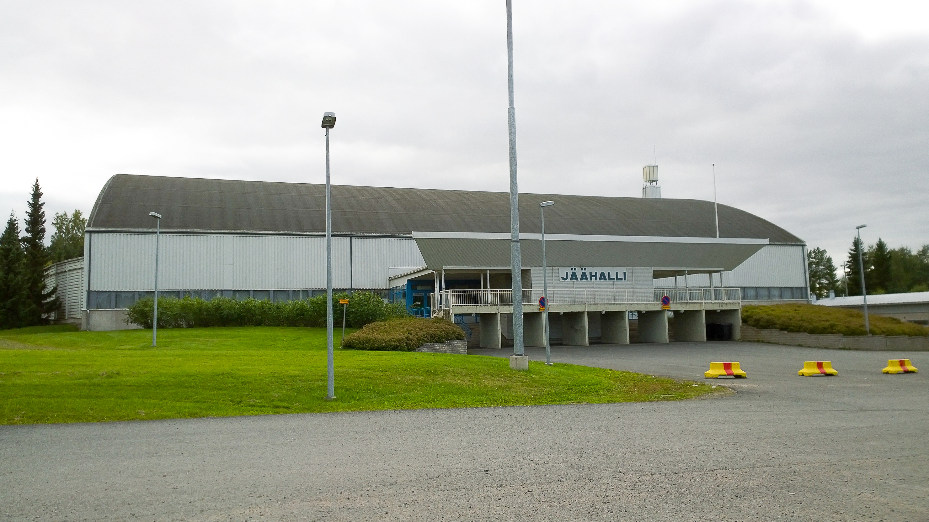 Forssa Ice Stadium